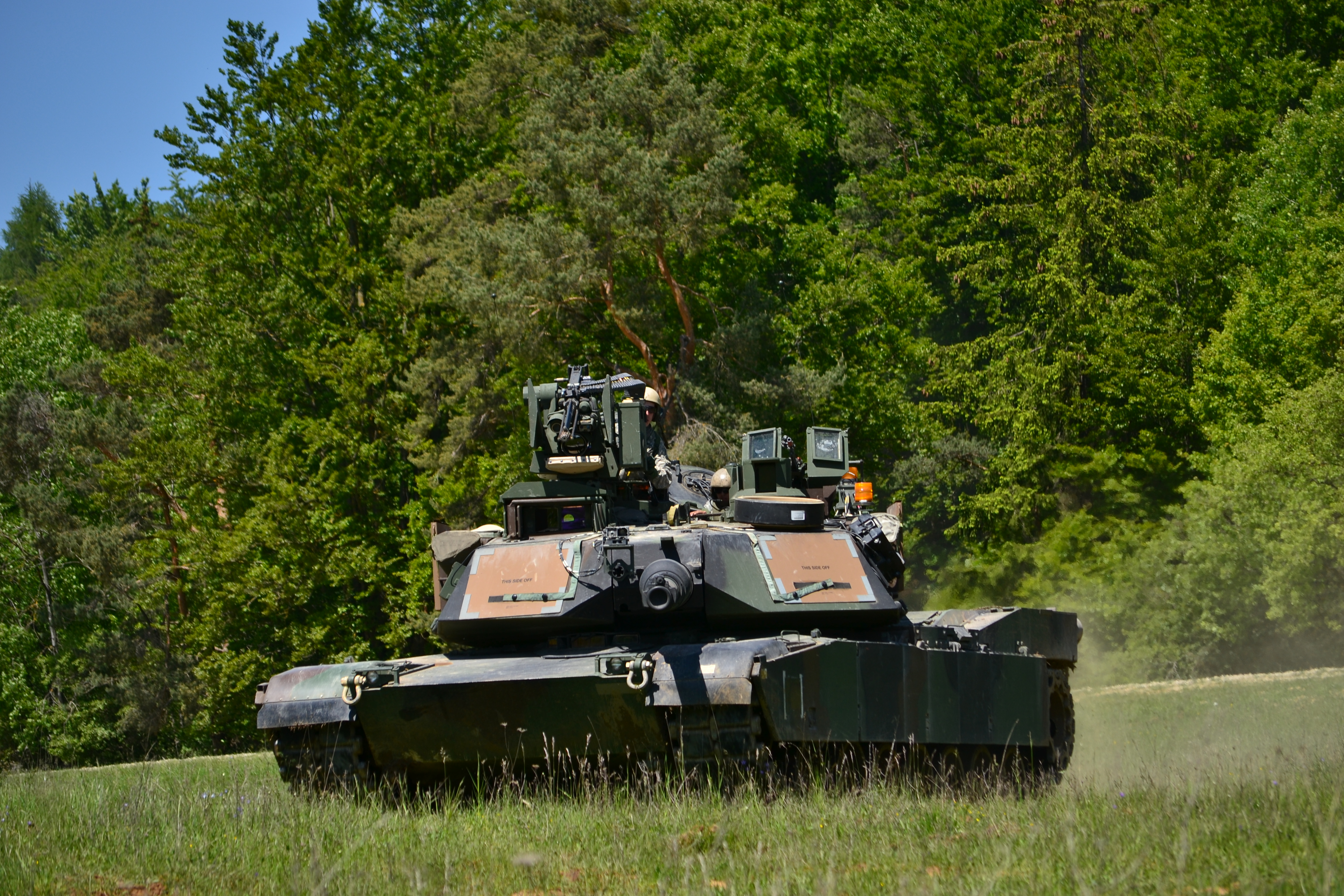 M1A2 tanks at Combined Resolve II